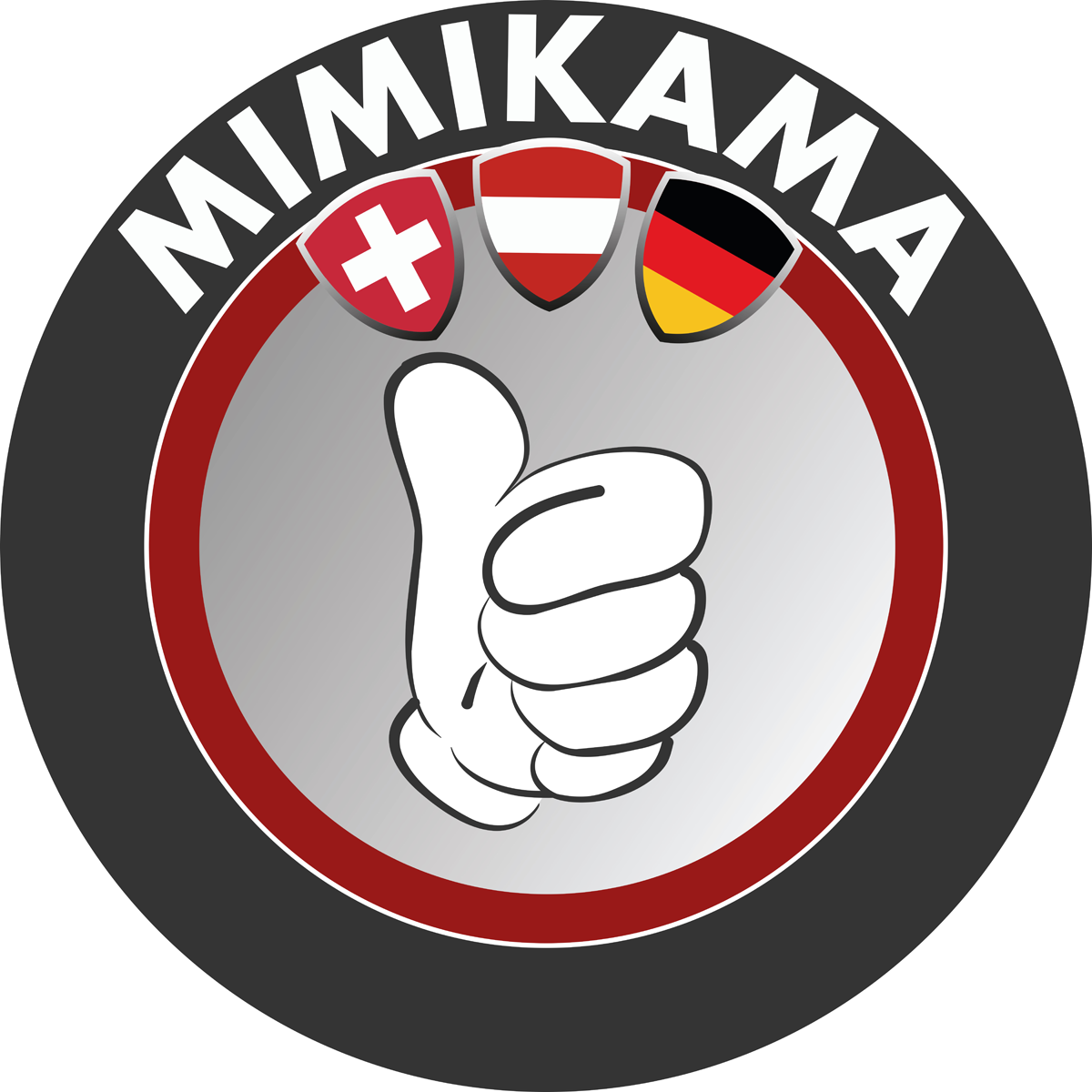 Official registered Trademark Logo